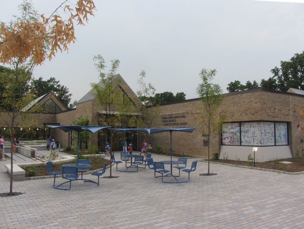 Savage Library